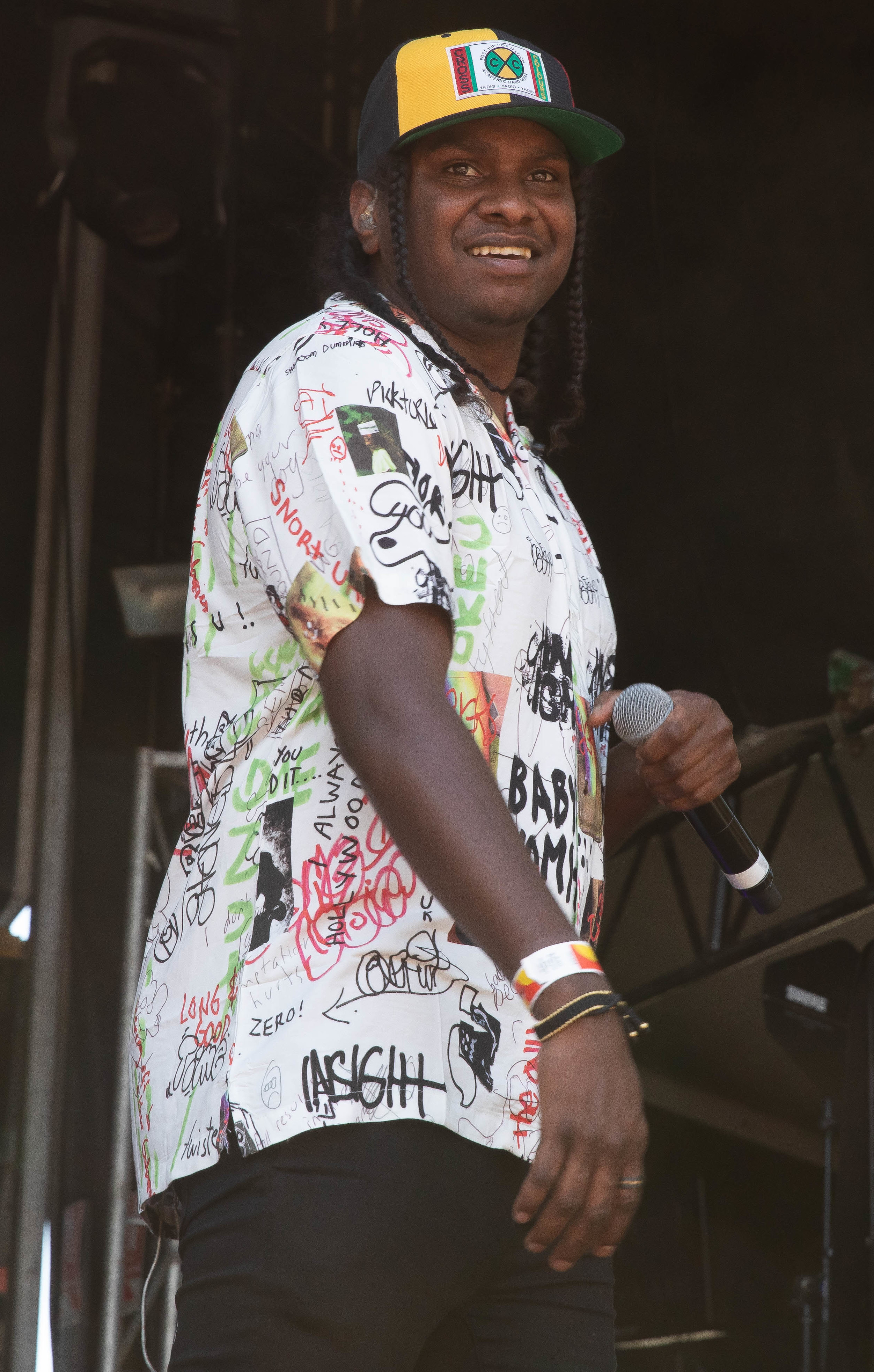 Musician Baker Boy performing at St Jerome's Laneway Festival, 2019.